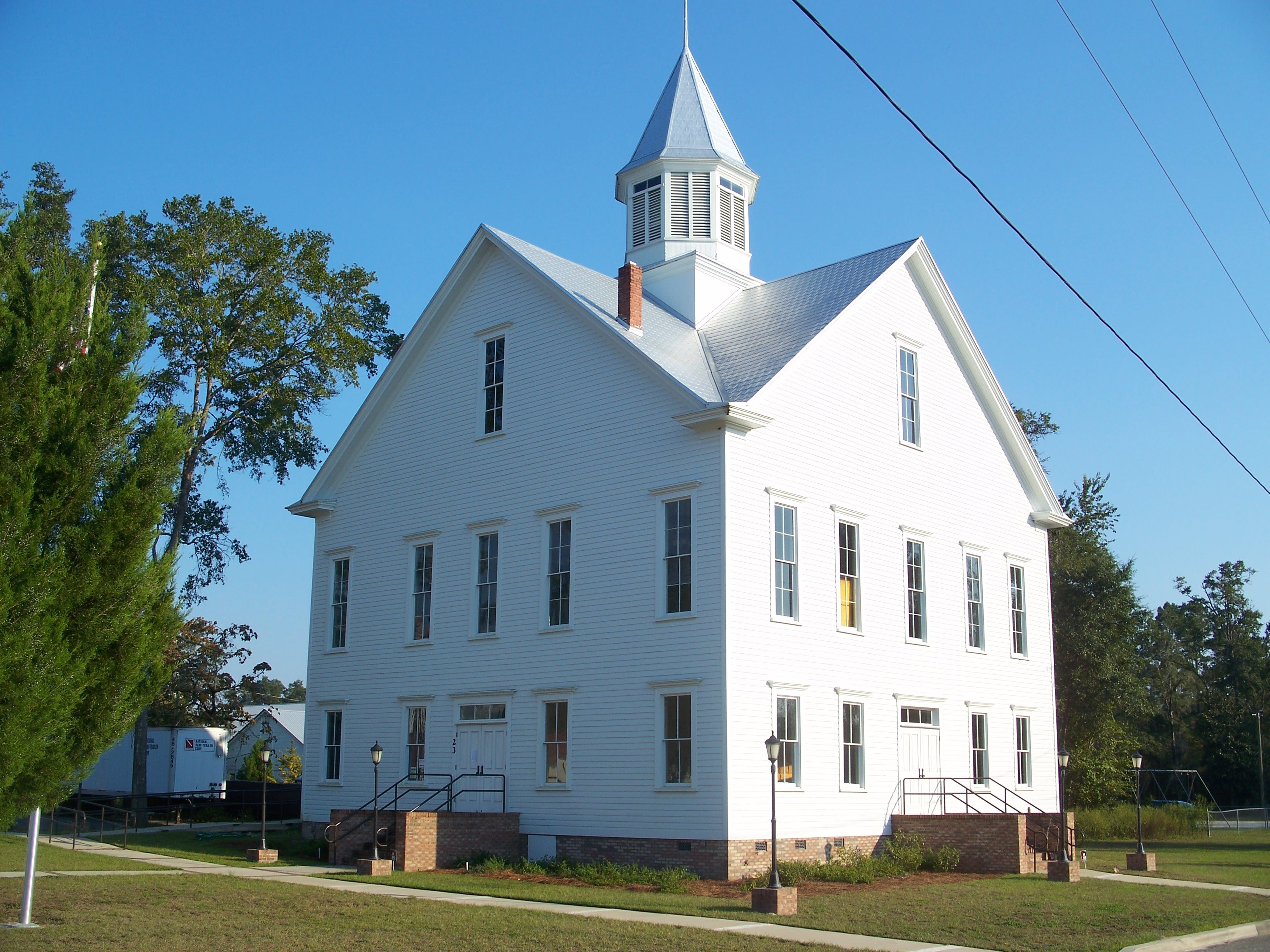 Crawfordville, Florida: Old Wakulla County Courthouse